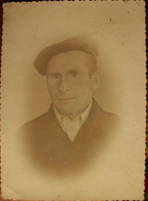 Photo from the gulag in 1954 - Franс Bujak, Armia Krajowa